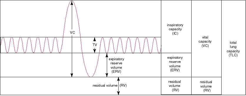 PFT graph: I drew this graph to illustrate pulmonary volumes and function. User:Someone_else